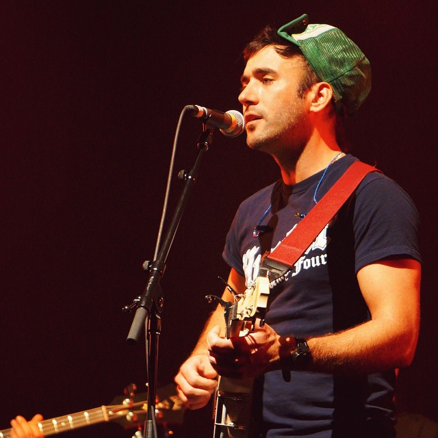 Sufjan Stevens in 2015 on the Carrie and Lowell tour.